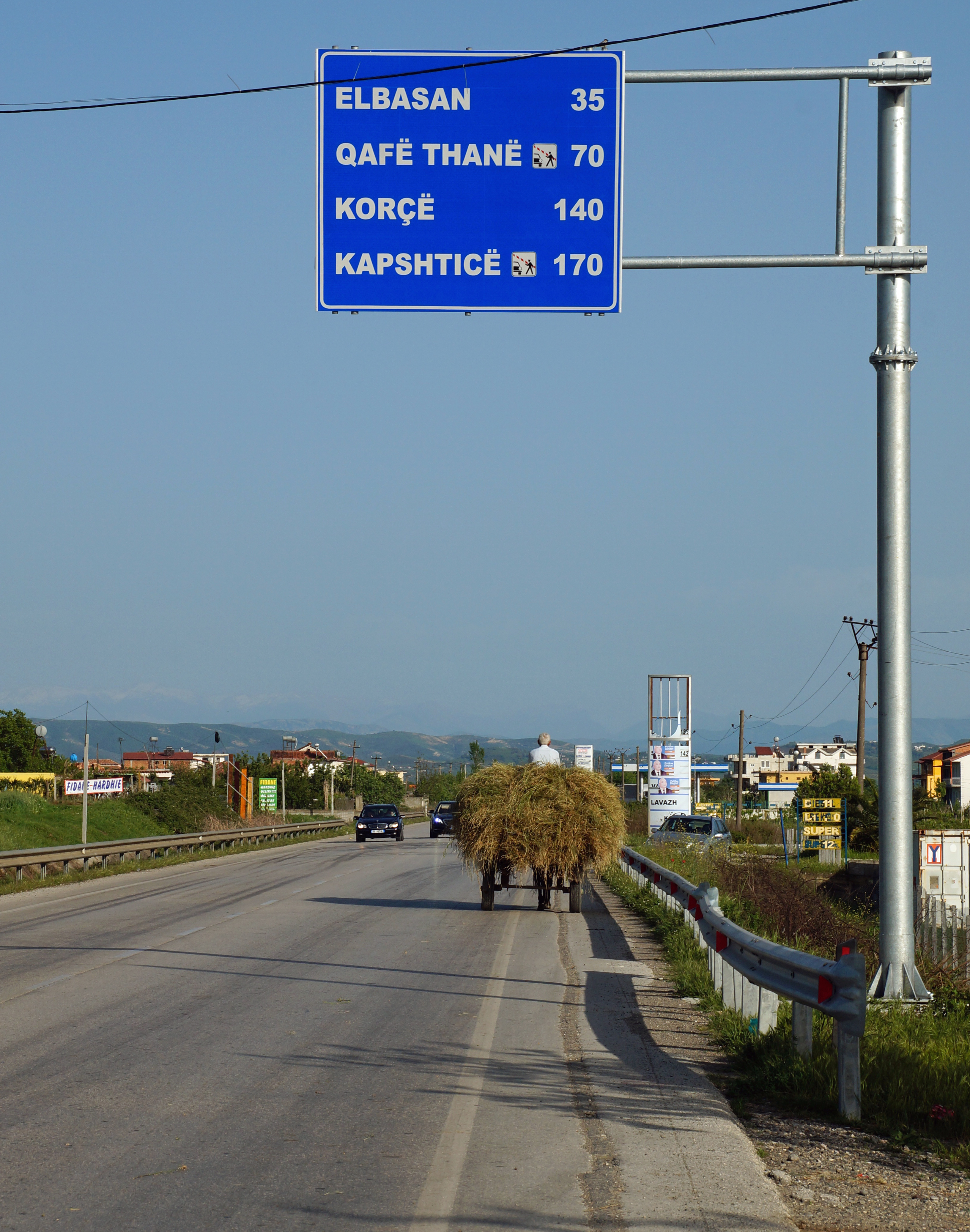 Albanian National Road SH7 between Rrogozhina and Peqin